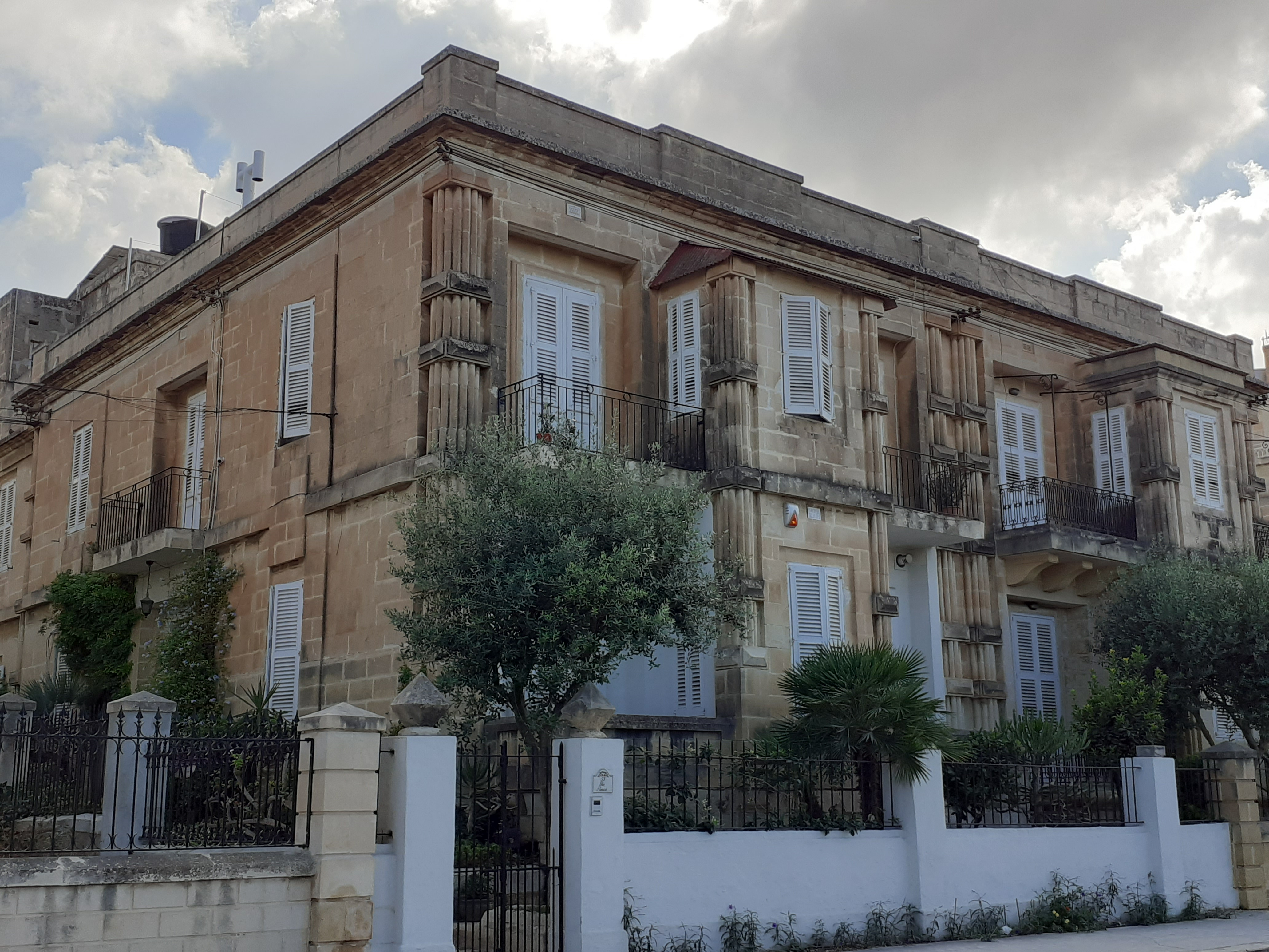 No. 54, ix-Xatt Ta' Xbiex (Villa Gloria)